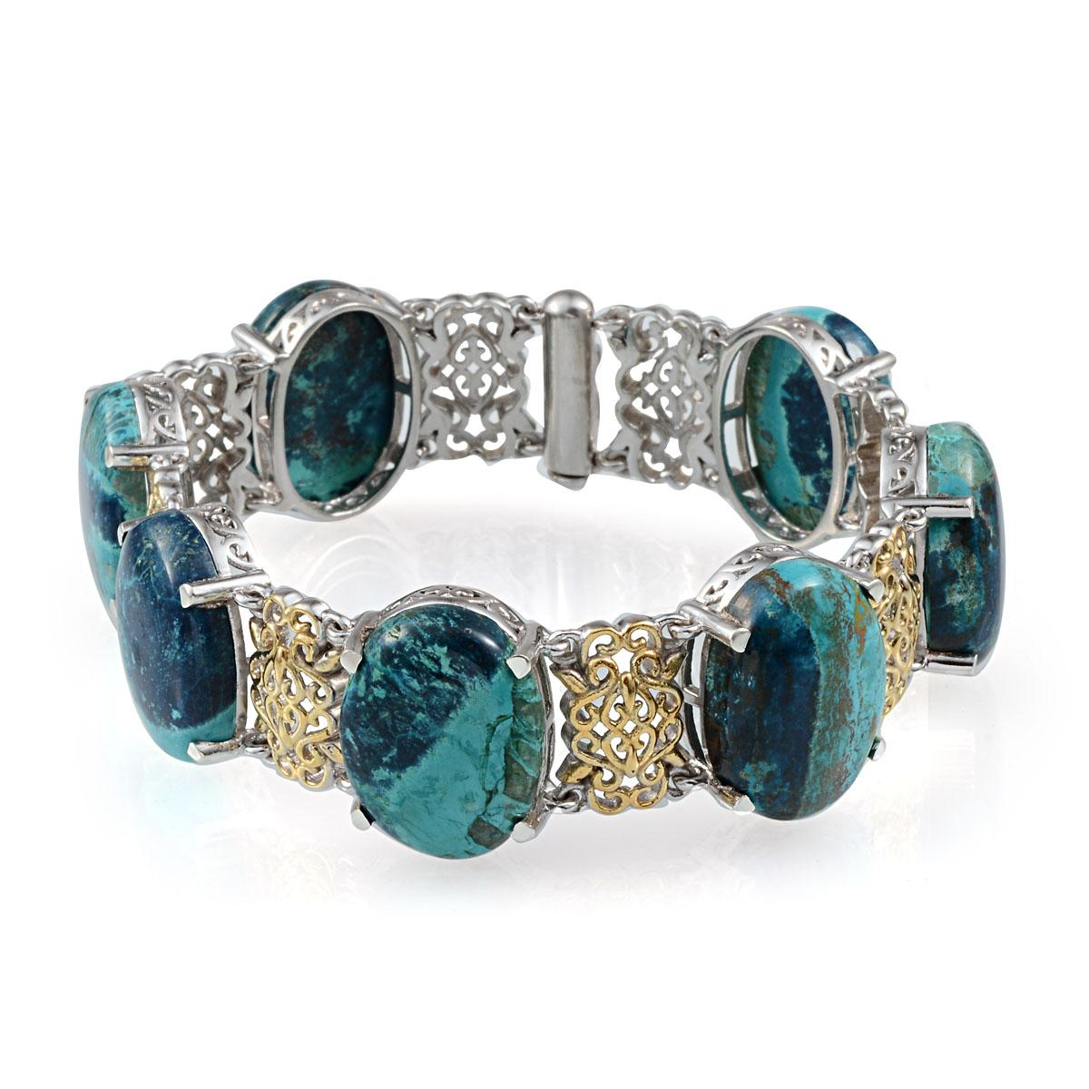 Table Mountain Shadowkite Bracelet